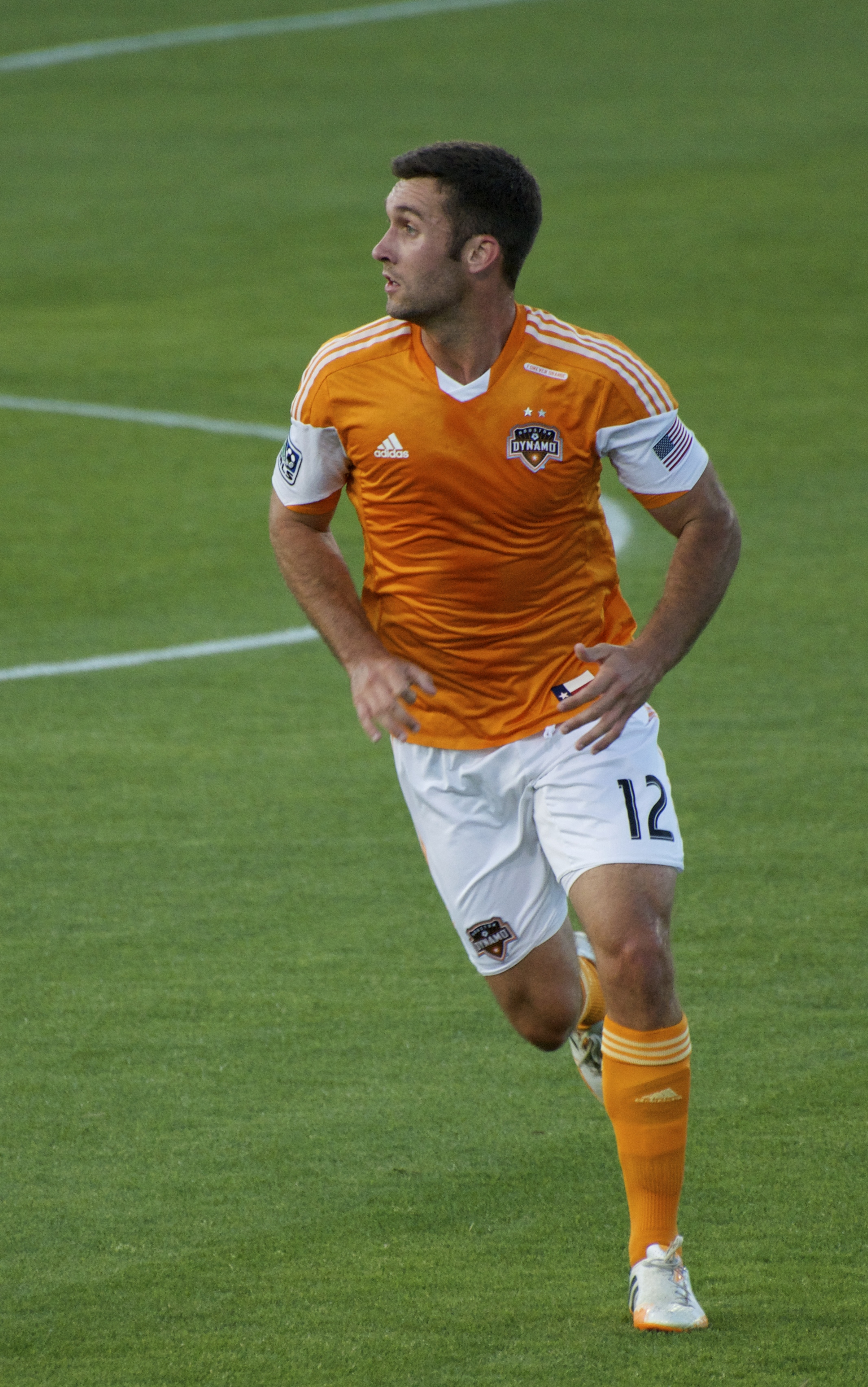 Will Bruin, Houston Dynamo vs San Jose Earthquakes, Buck Shaw Stadium, 25 May 2014